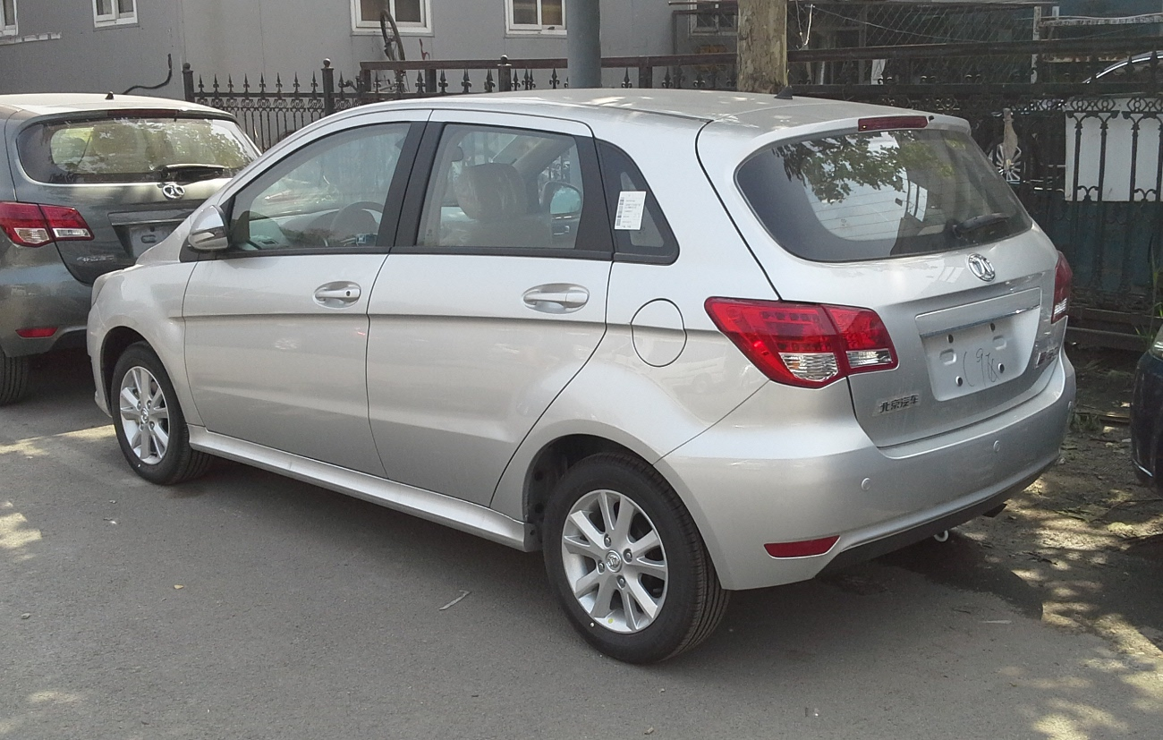 Beijing Auto E-Series hatch photographed in Beijing, China.